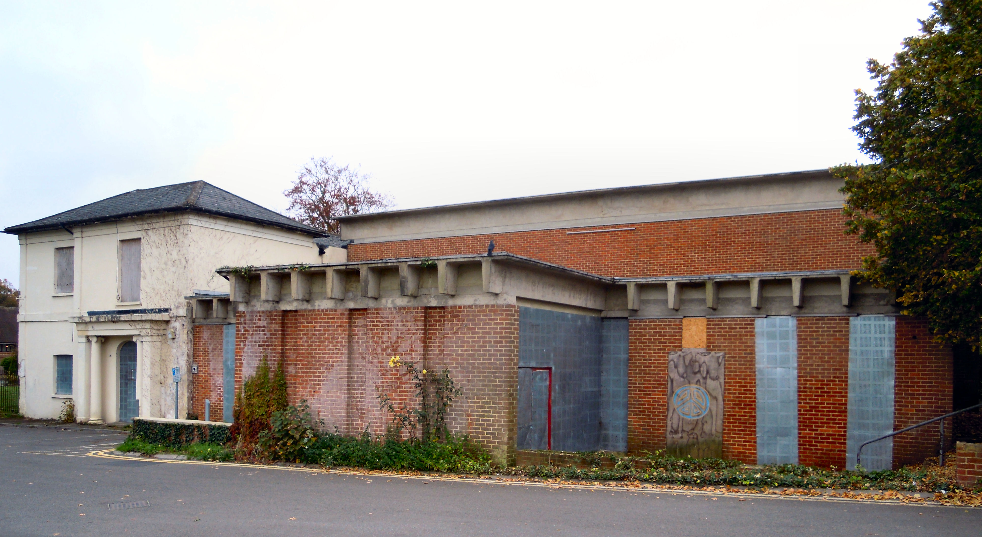 The Entrance to the Redgrave Theatre in Farnham